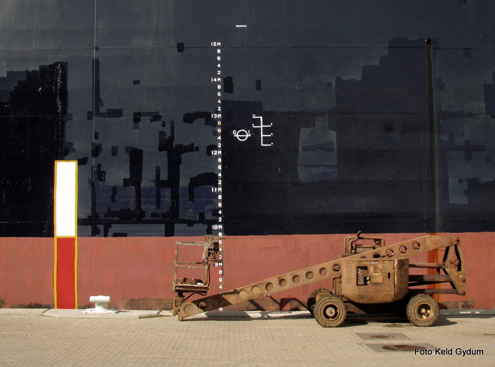 Draught marks on ship, Aerial work platform